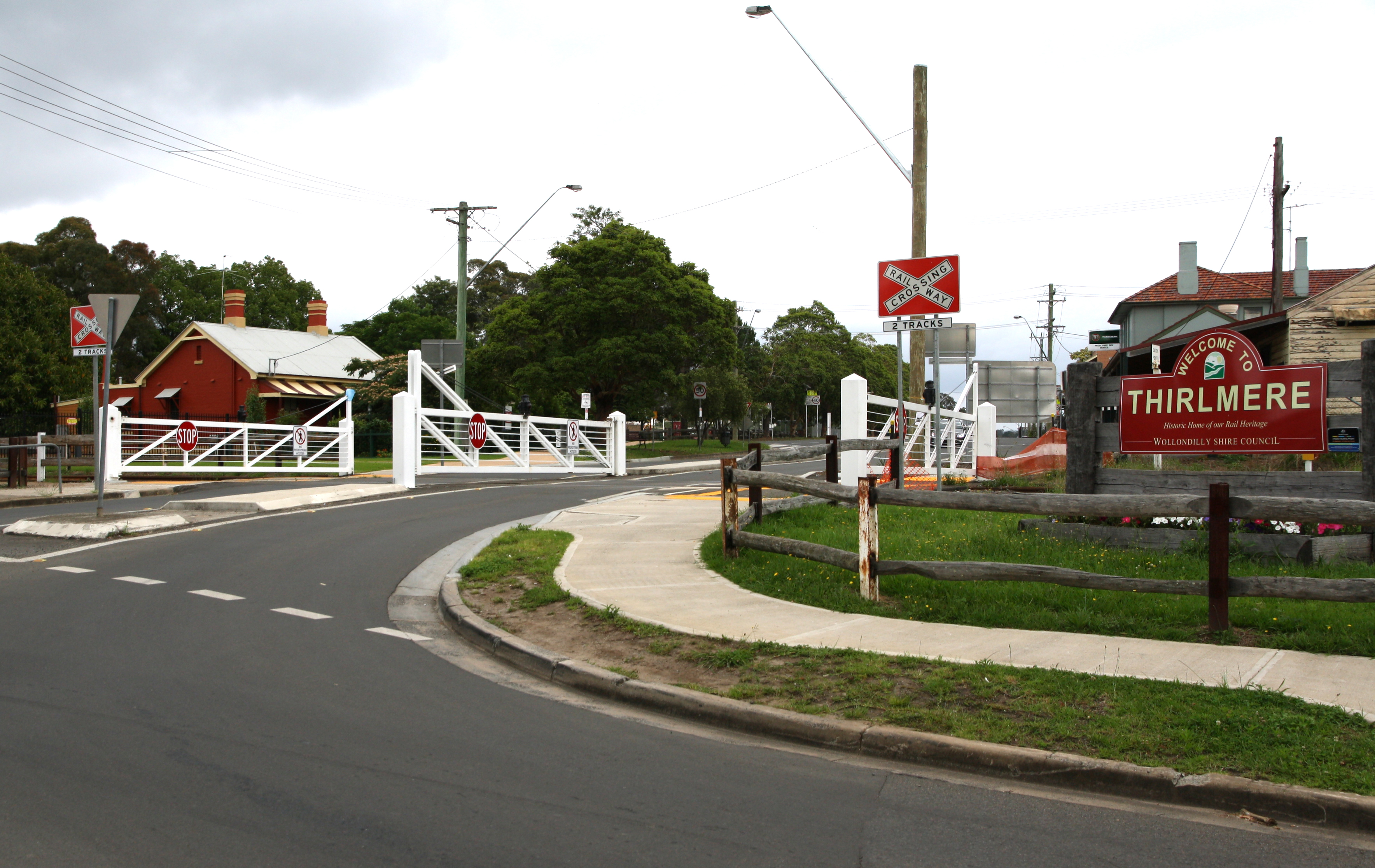 Eastern entrance to the village of Thirlmere NSW Australia showing recently installed level crossing gates.